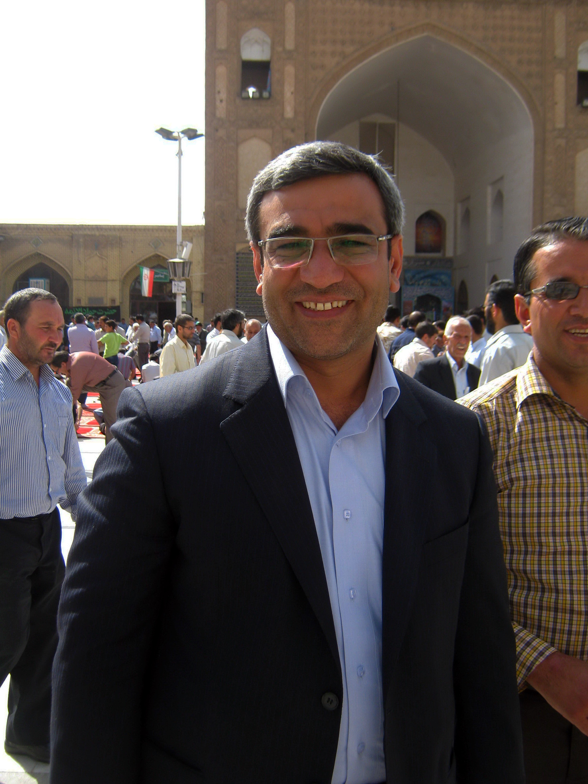 Hossein Muzaffari in Grand Mosque of Nishapur - October 5,2013 - Friday Pray